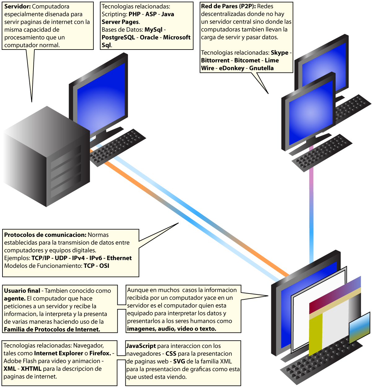 Scheme of the internet and some related technologies